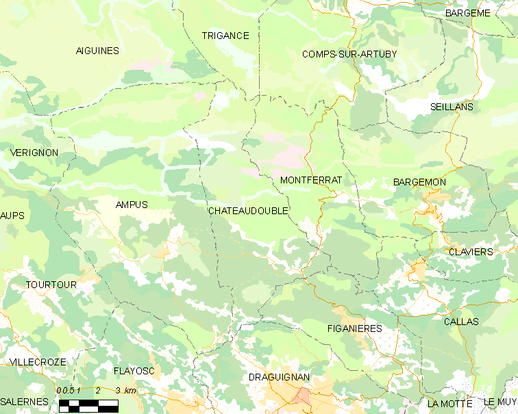 Map of French municipality Châteaudouble